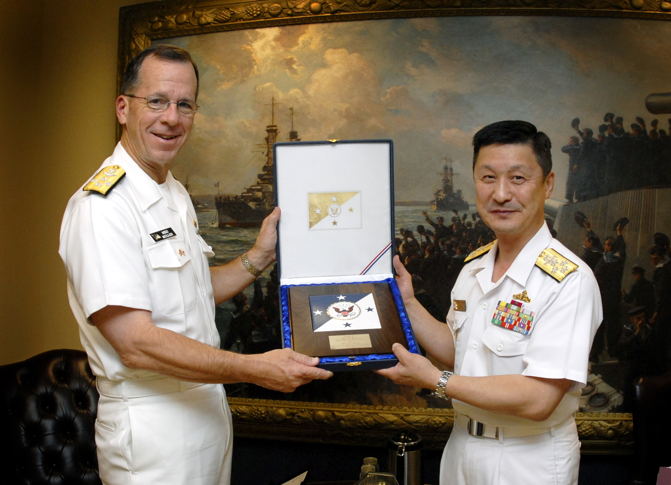 WASHINGTON (May 18, 2007) - Chief of Naval Operations (CNO) Adm. Mike Mullen presents Adm. Eiji Yoshikawa, Chief of Staff, Japan Maritime Self-Defense Force with a plaque during an office call at the Pentagon. Mullen also presented Yoshikawa with the Legion of Merit in recognition of his leadership and guidance during a full honors ceremony at the Washington Navy Yard earlier in the day. U.S. Navy photo by Mass Communication Specialist 1st Class Chad J. McNeeley (RELEASED)